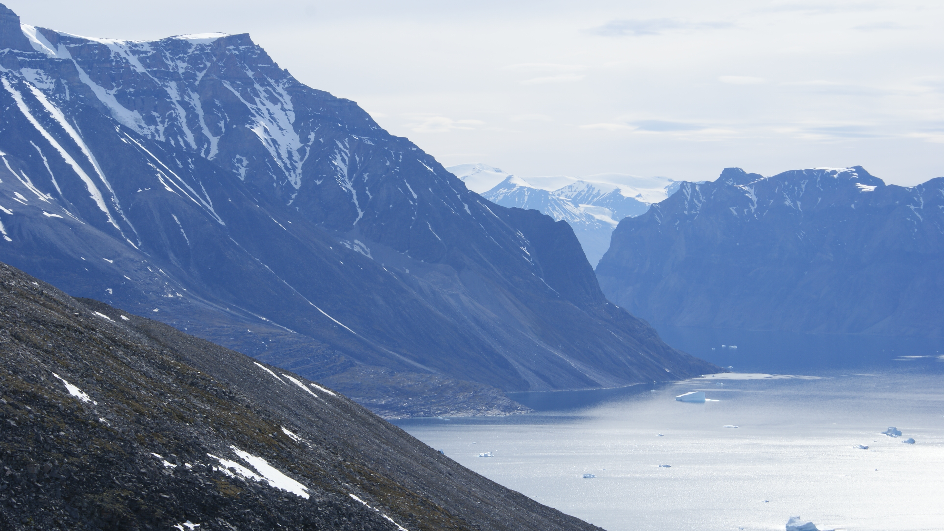 Appat Island and Salleq Island, Greenland. Photographed from the Ukkusissat peninsular ridge, from the north.